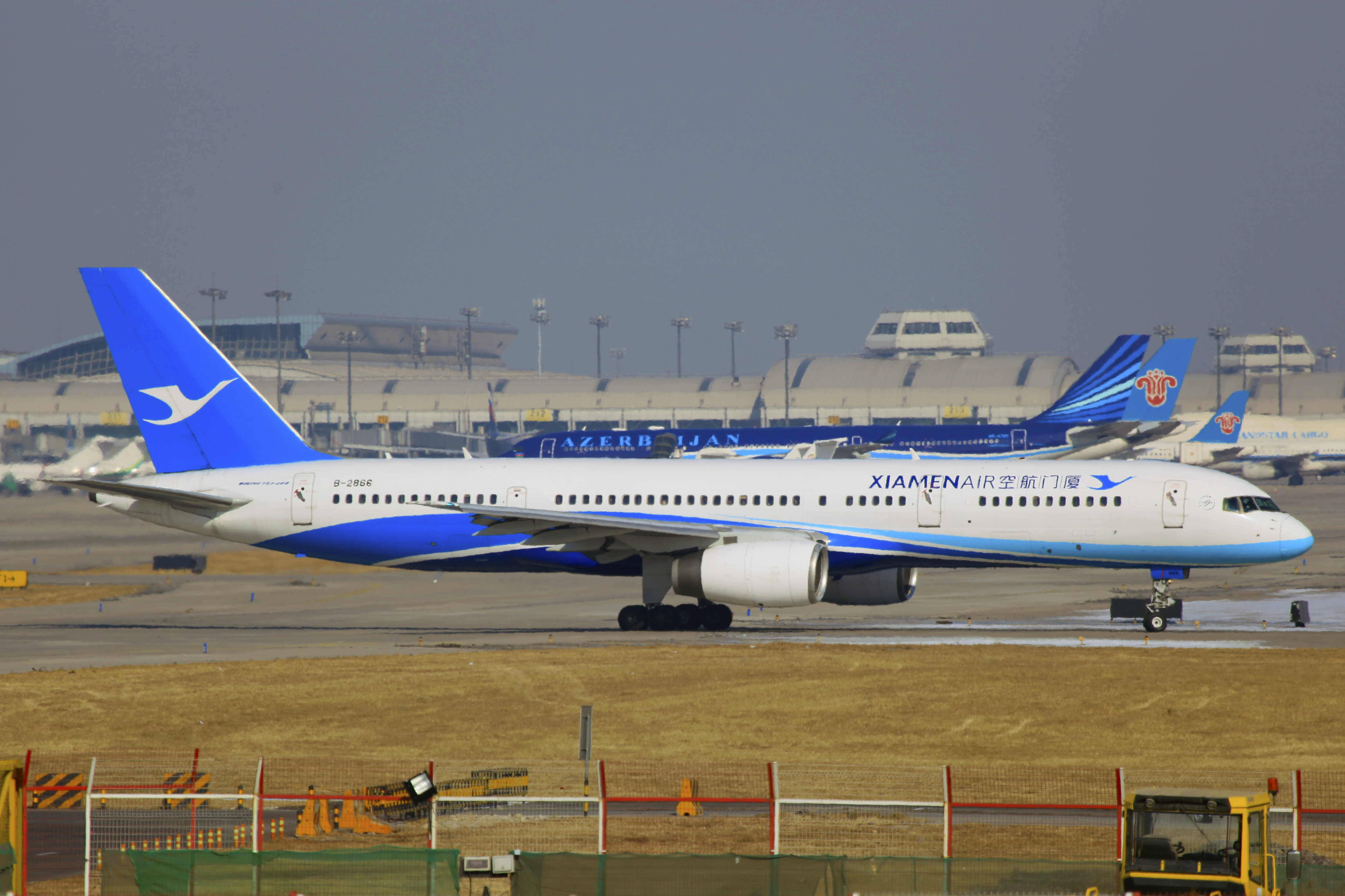 B-2866 | Xiamen Airlines | Boeing 757-25C | Beijing Capital International Airport [PEK]